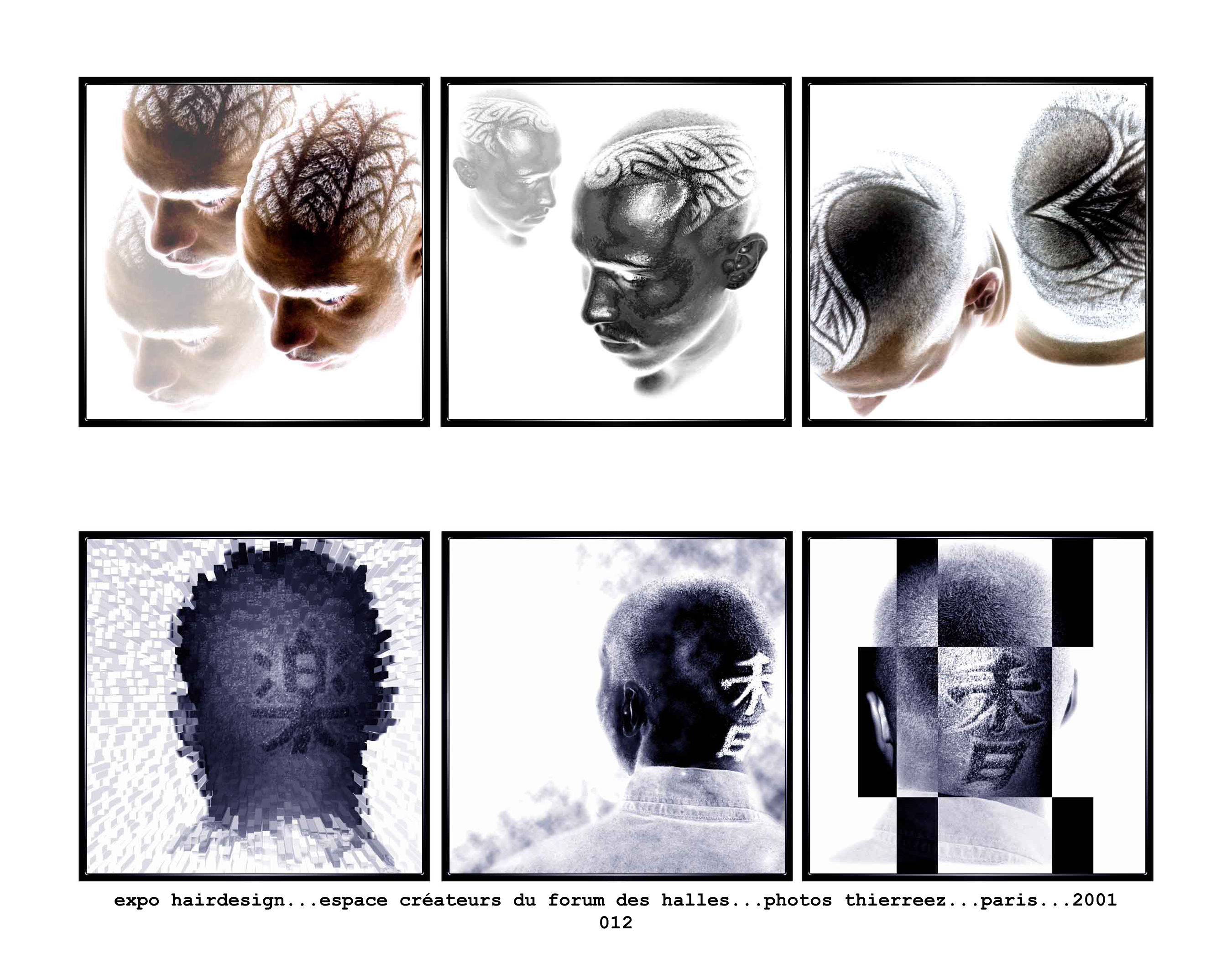 HAIRDESIGN a la tondeuse par ThierreeZ